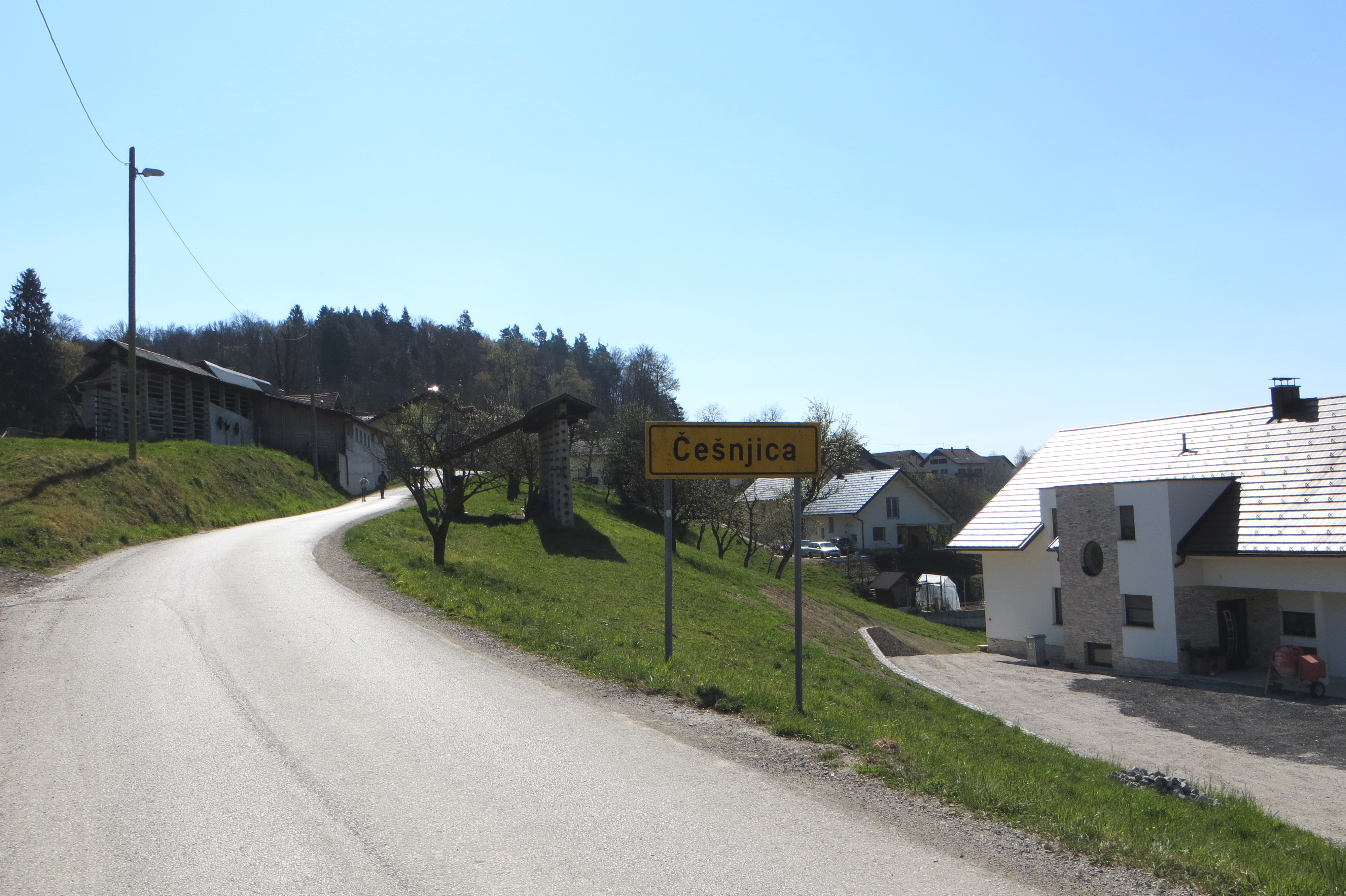 Češnjica, Municipality of Ljubljana, Slovenia